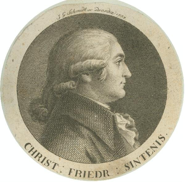 Portrait of Christian Friedrich Sintenis (1750-1820). Inscription at the top: "J. G. Schmidt sc dresdæ 1793.", inscription at the bottom: "CHRIST : FRIEDR : SINTENIS."